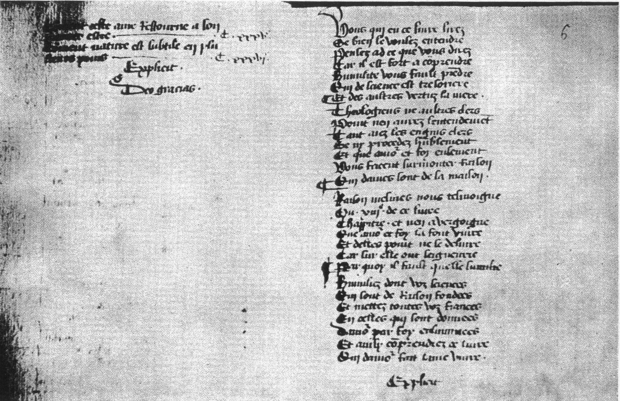 Marguerite Porete, The Mirror of Simple Souls, end of index and initial poem